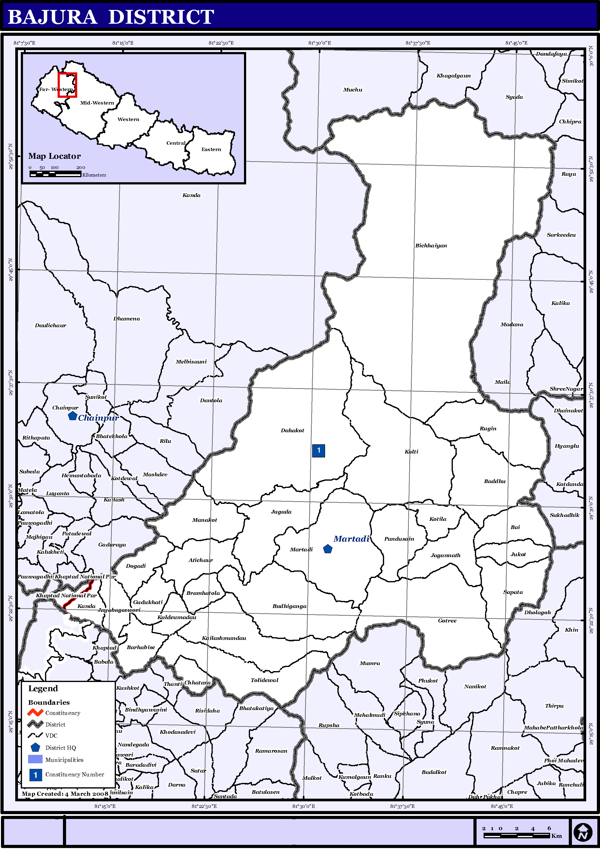 Map displaying Village Development Committees in Bajura District, Nepal